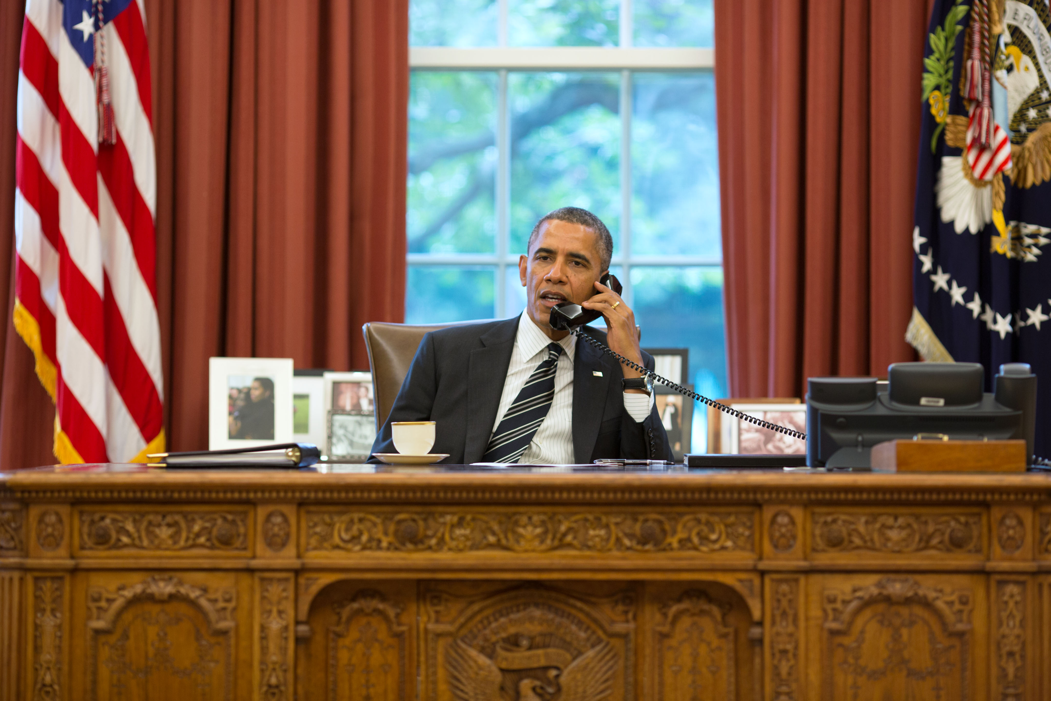 President of the United States, Barack Obama, talks with the President of Iran, Hassan Rouhani, during a telephone call in the Oval Office on 27 September 2013.